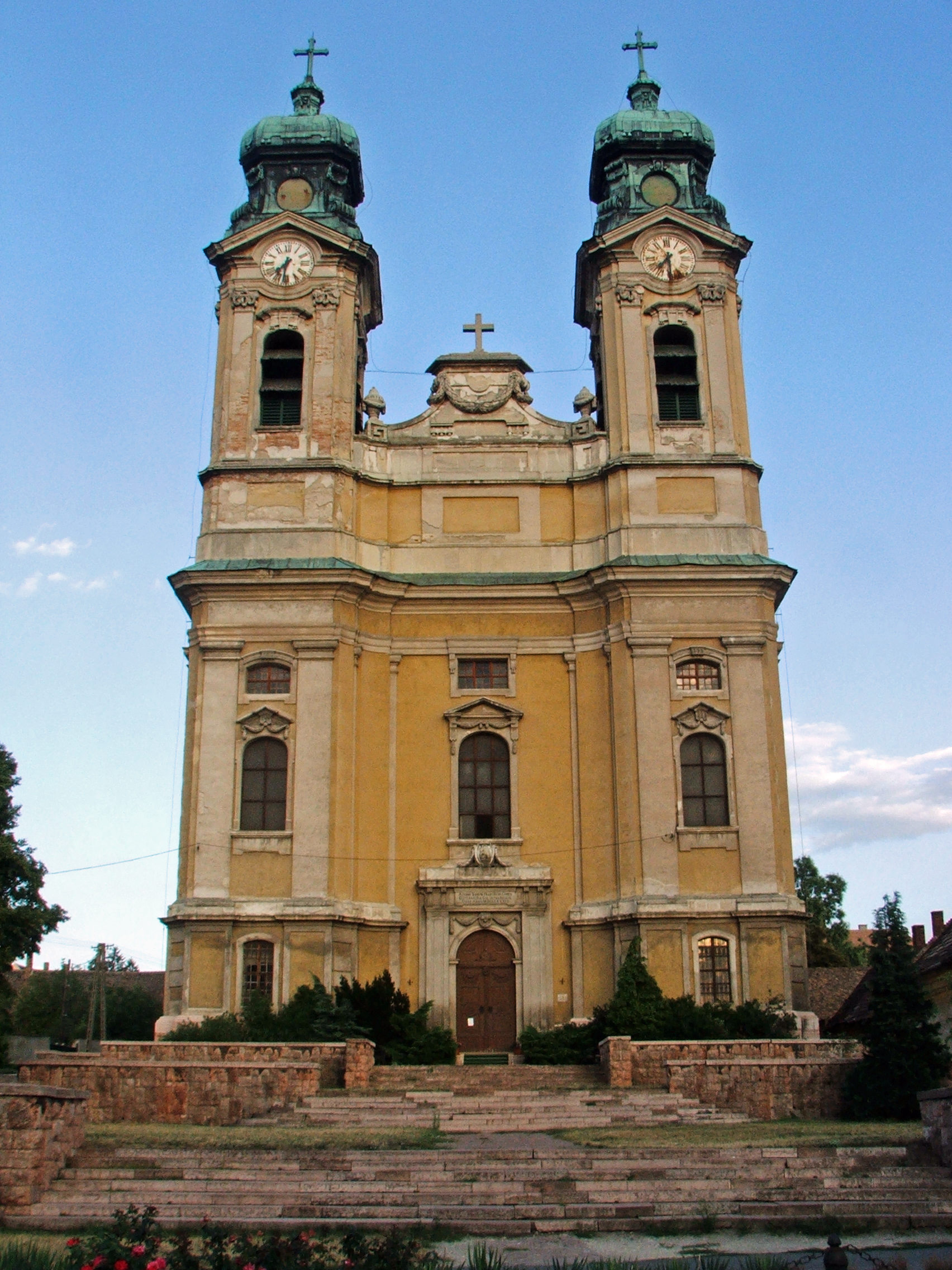 The parish church of Tata, in Kossuth square. Architects: Jakab Fellner and József Grossmann (1751–1784)